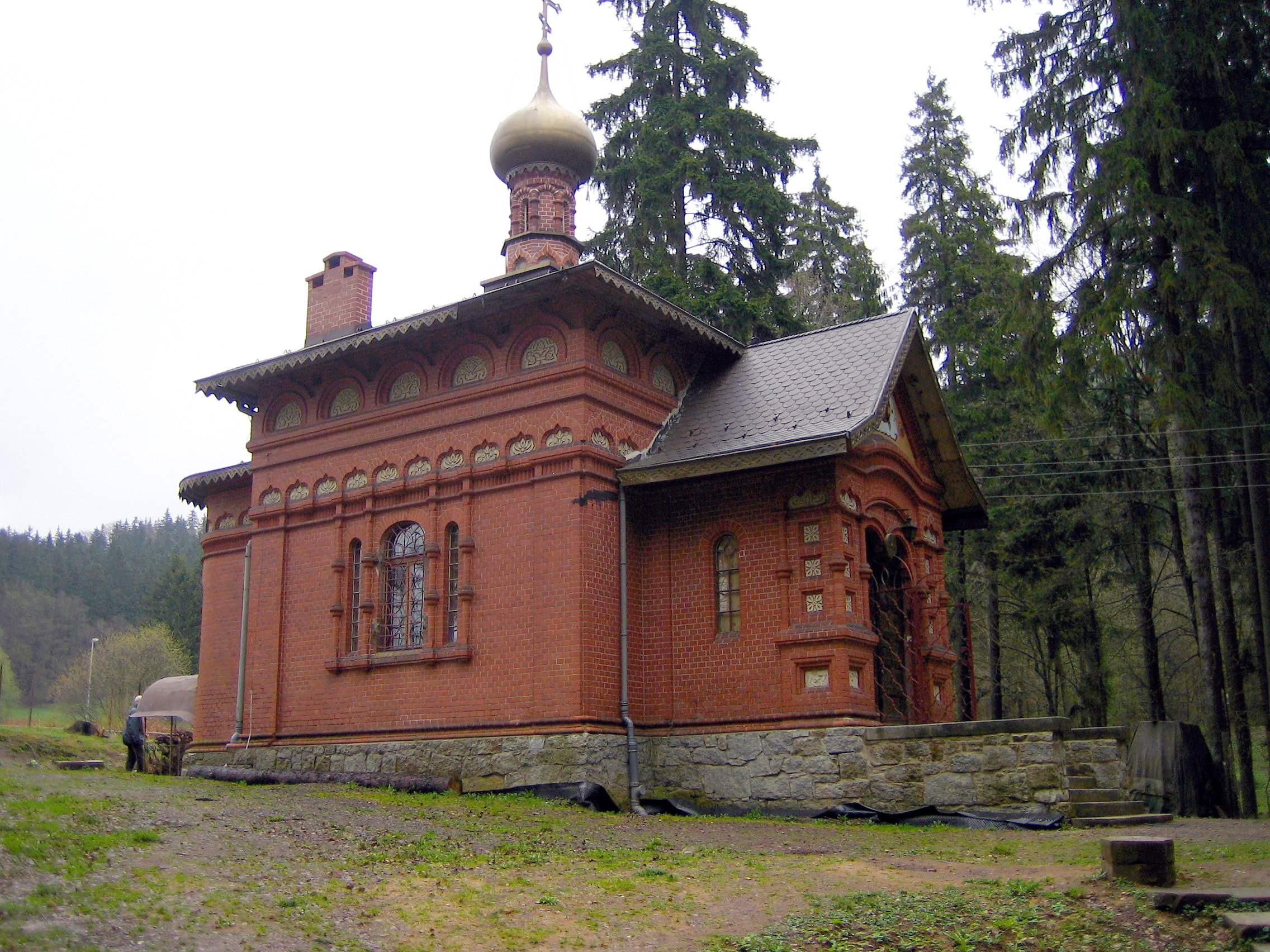 Sokolowsko (PL) - chapel of Eastern Orthodox Church